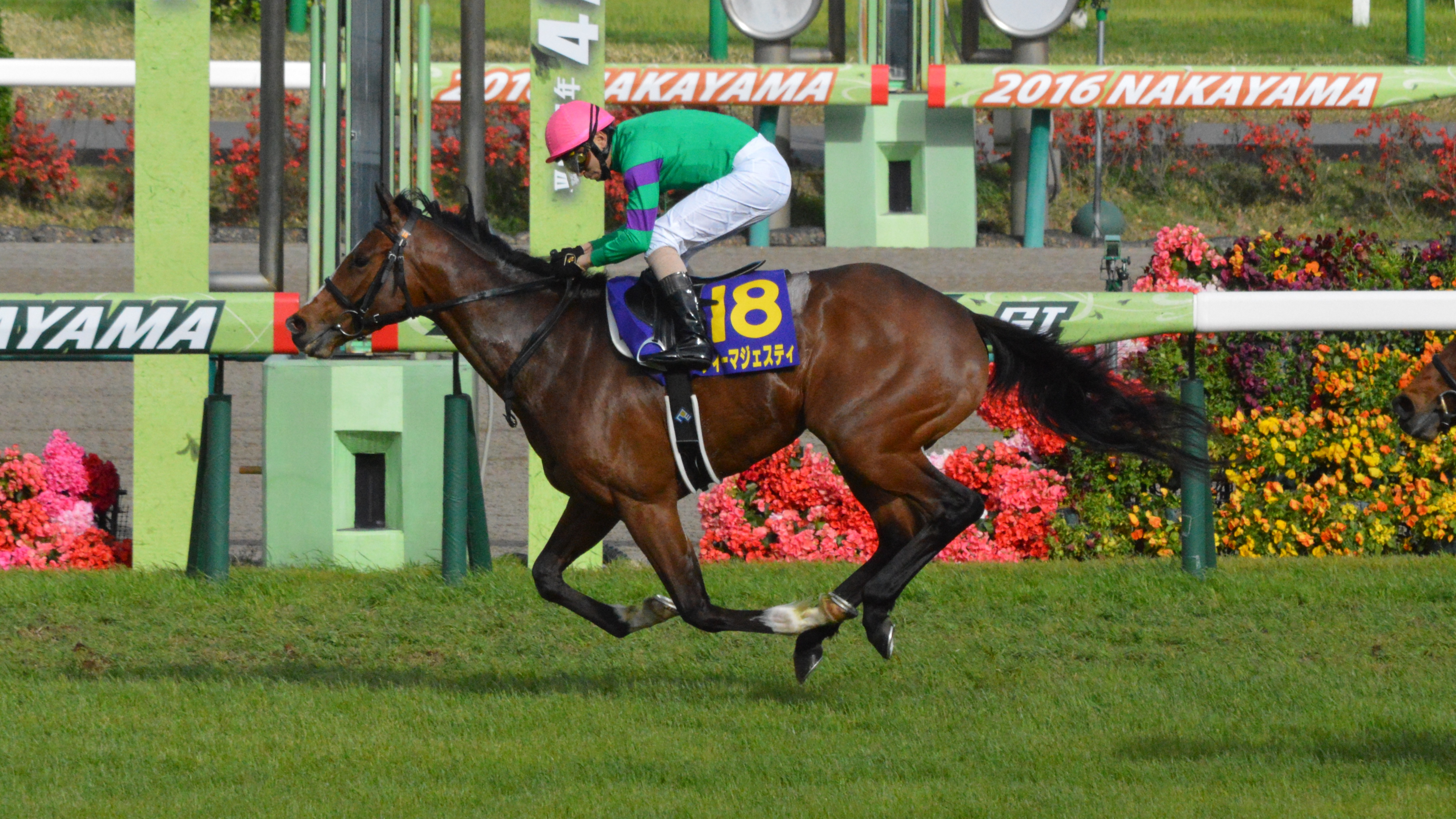 Japanese race horse Dee Majesty at Nakayama racecourse. Nakayama (JPN) 17 Apr 2016Satsuki Sho (Japanese 2000 Guineas) (Grade 1) (3yo Colts & Fillies) (Turf) 1m2f Firm RankHorse NameOddsAgeWgtJockeyTrainer1stDee Majesty (JPN)30/1C39-0Masayoshi EbinaYoshitaka Ninomiya2ndMakahiki (JPN)27/10C39-0Yuga KawadaYasuo TomomichiOthers are omitted. (18 horses entered in a race.)